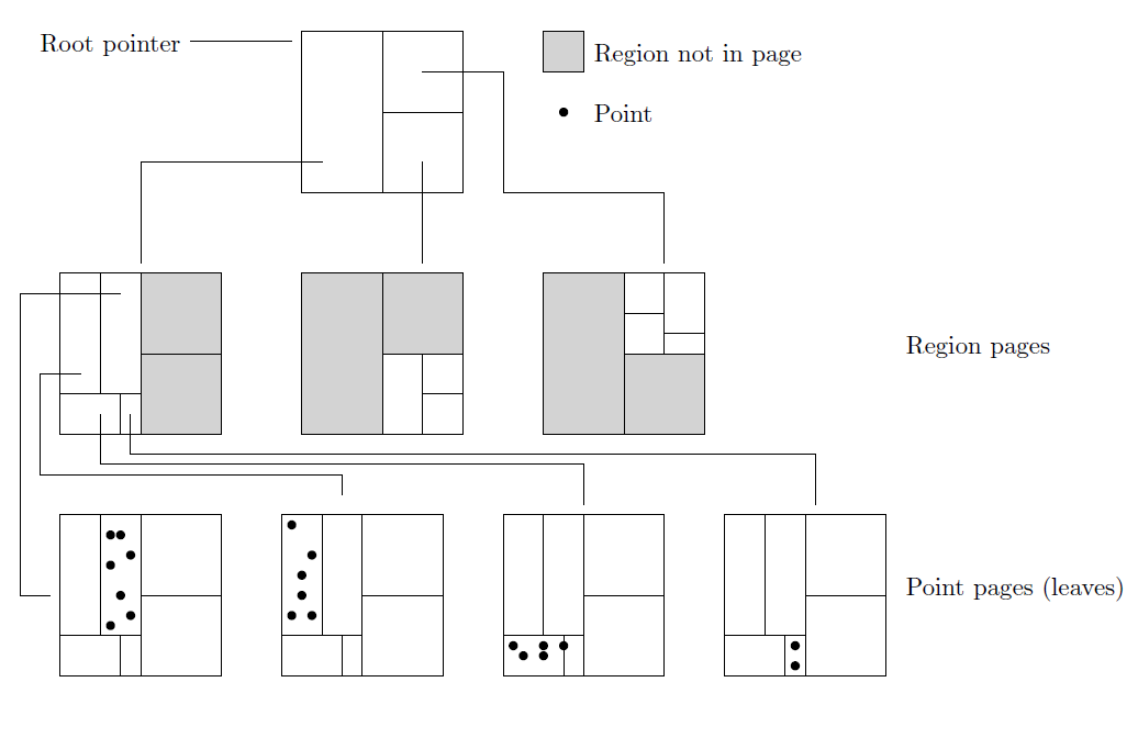 The structure of a basic K-D-B-tree showing the distinction between region and point pages. Note that each node in the region pages level stores multiple regions.